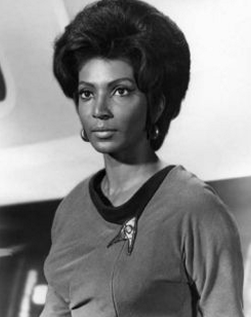 Photo of Nichelle Nichols as Uhura from the television program Star Trek.